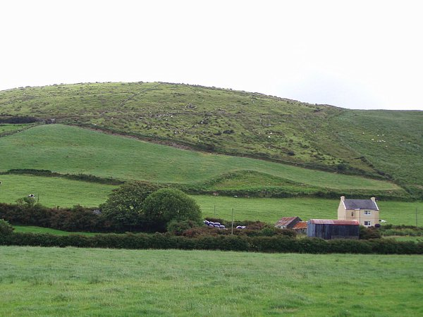 House at the foot of the hill. A farmhouse sitting at the base of an unnamed 188m high hill.